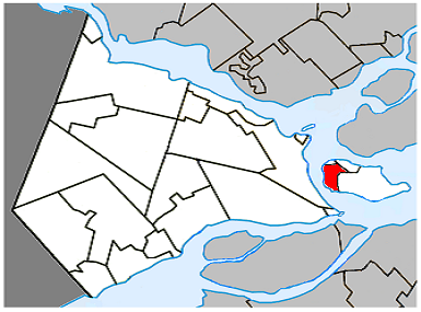 Location of Pincourt, Quebec within Vaudreuil-Soulanges Regional County Municipality.